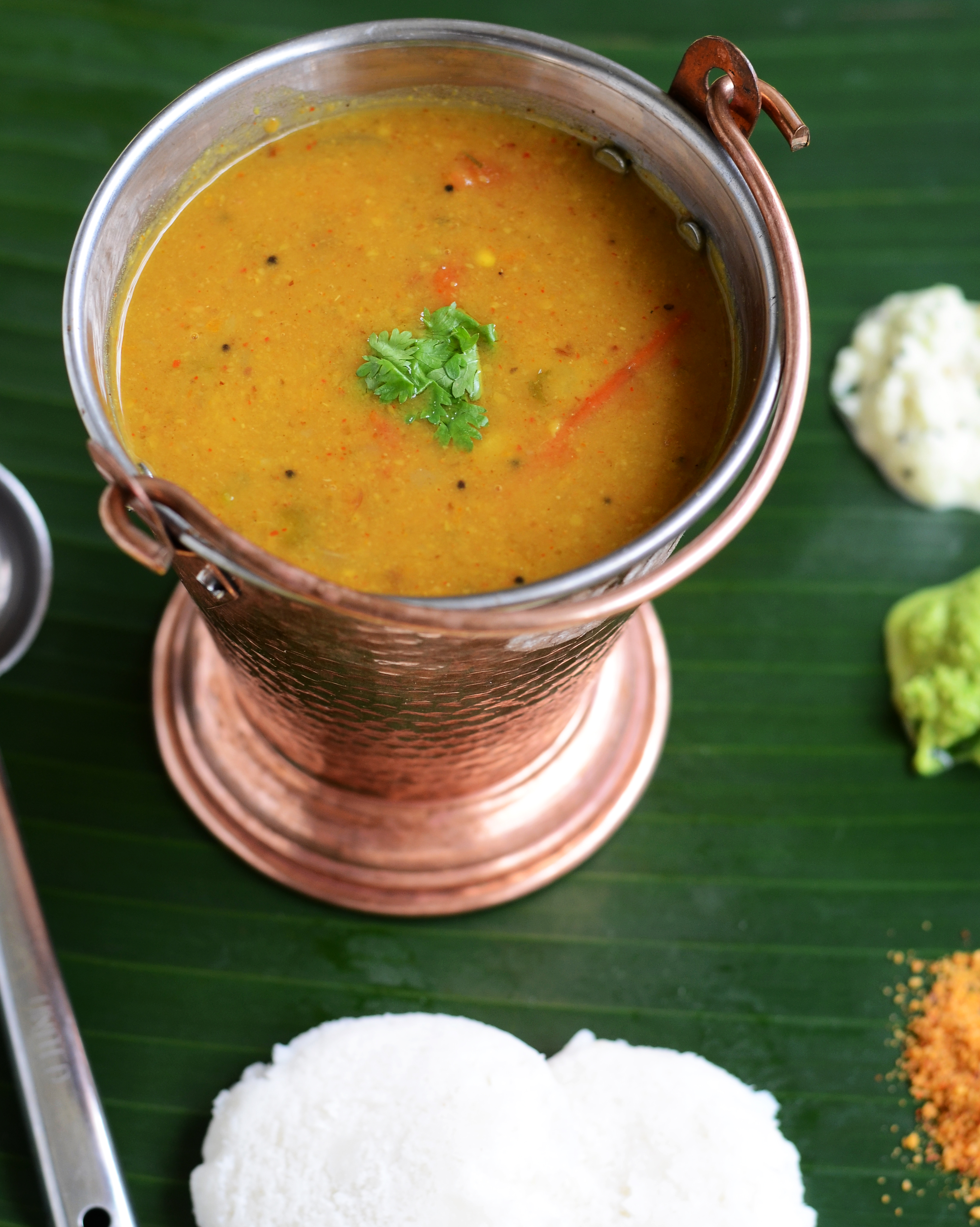 A popular south Indian breakfast side dish